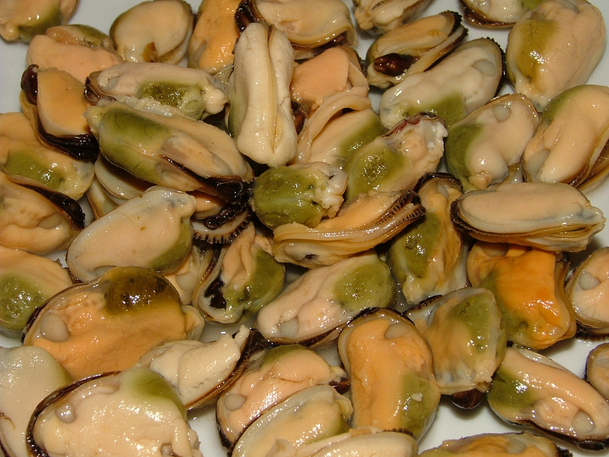 Bivalvia